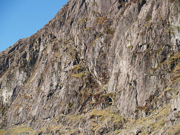 Jack's Rake scramble on Pavey Ark in the English Lake District. Photo taken May 2007. Walkers can be made out ascending the rake.